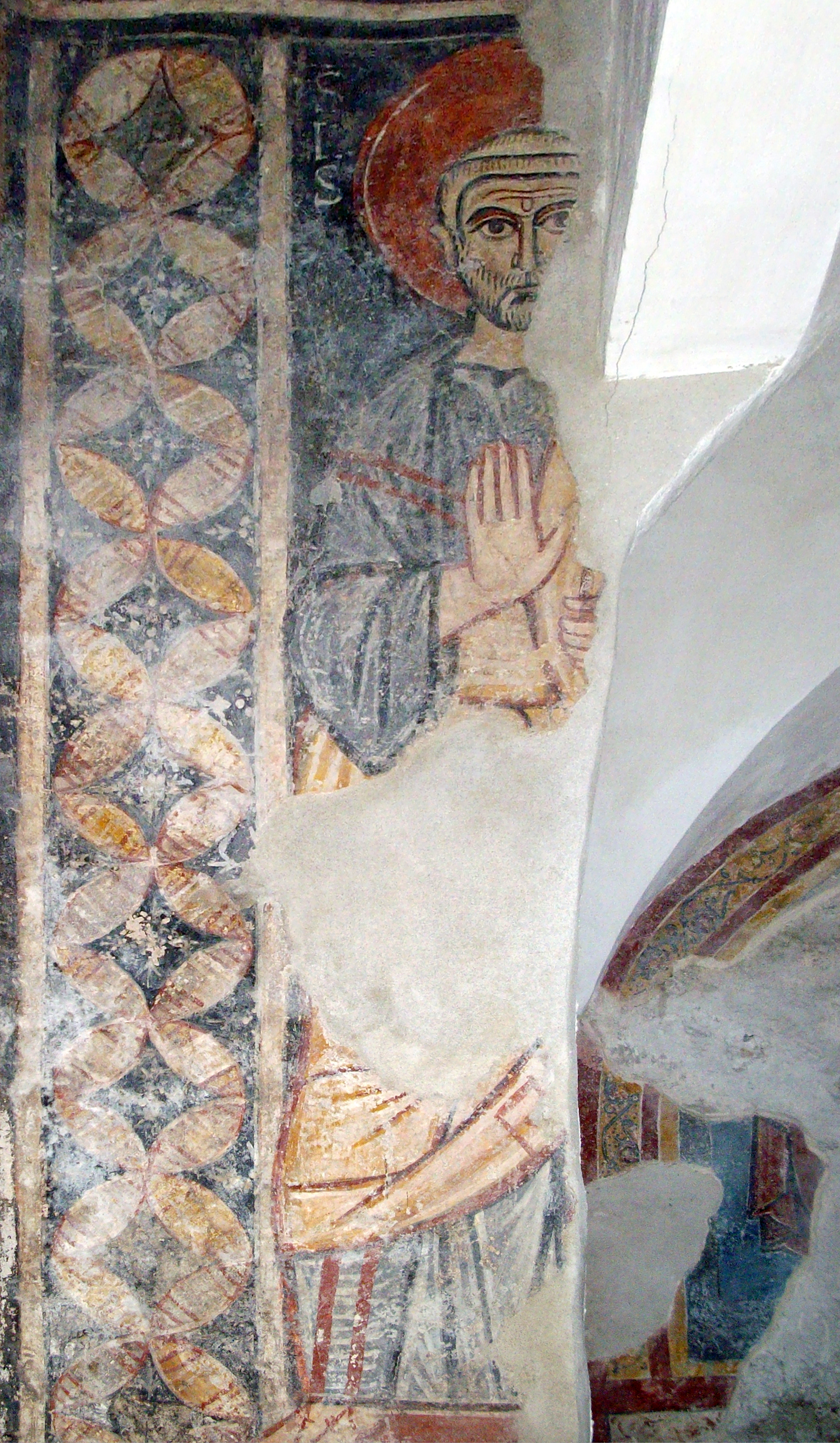 Lombard era fresco in Santa Maria de Lama at Salerno (Italy).